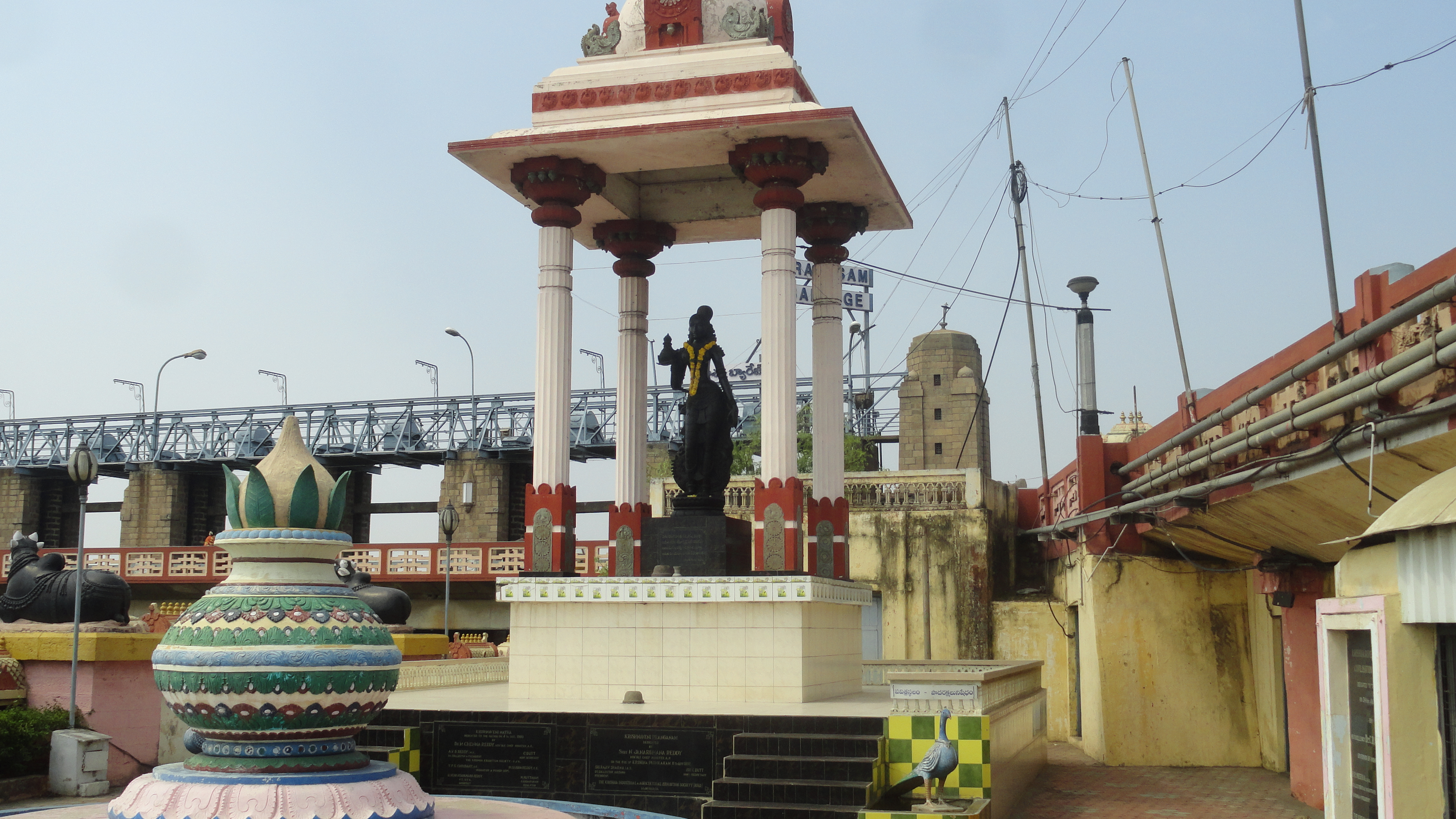 KrishnavEni. statue at prakaasam barrage\ కృష్ణ వేణి విగ్రహము. ప్రకాశం బారేజ్ వద్ద.